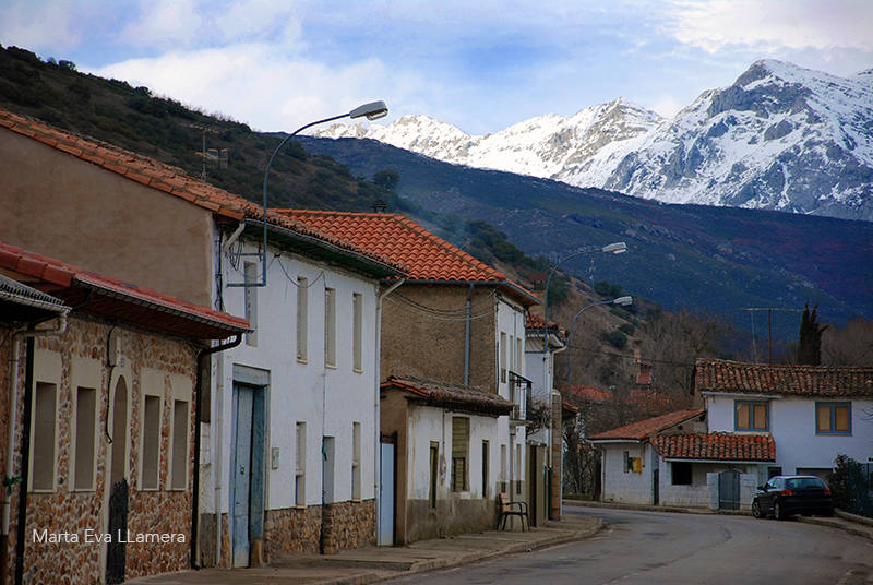 Peak Valdorria seen from La Candana